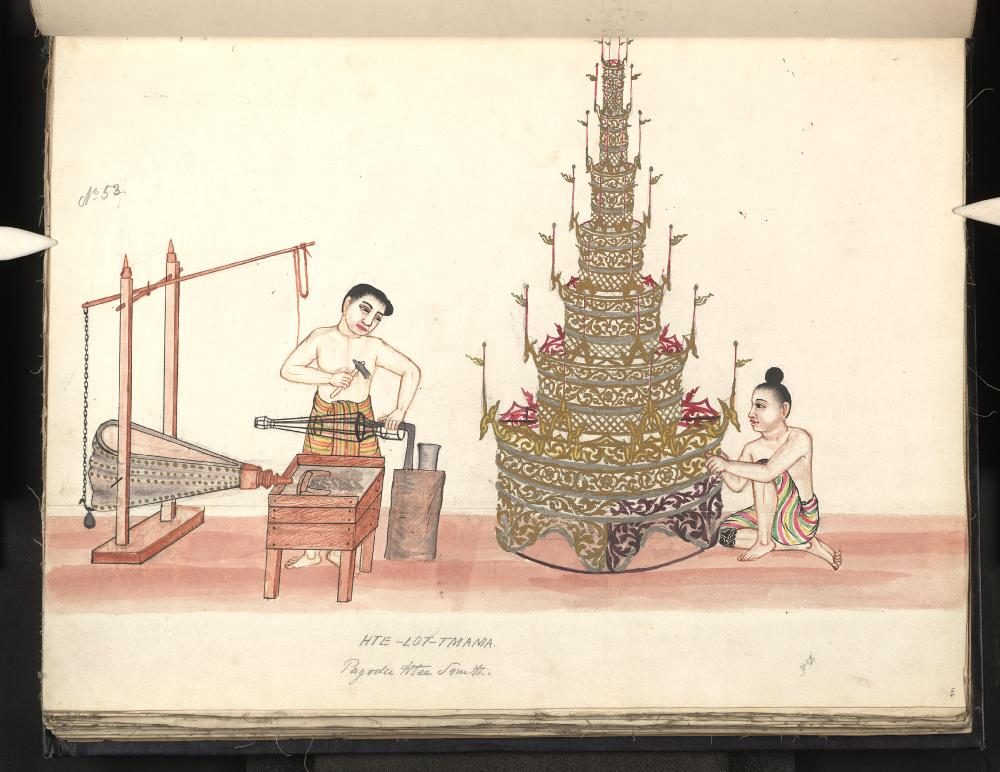 Watercolour painting by an unknown Burmese artist depicting 19th century Burmese life. Text: HTE-LOT-TMAMA Pagoda Htee-smith. More description at [1]